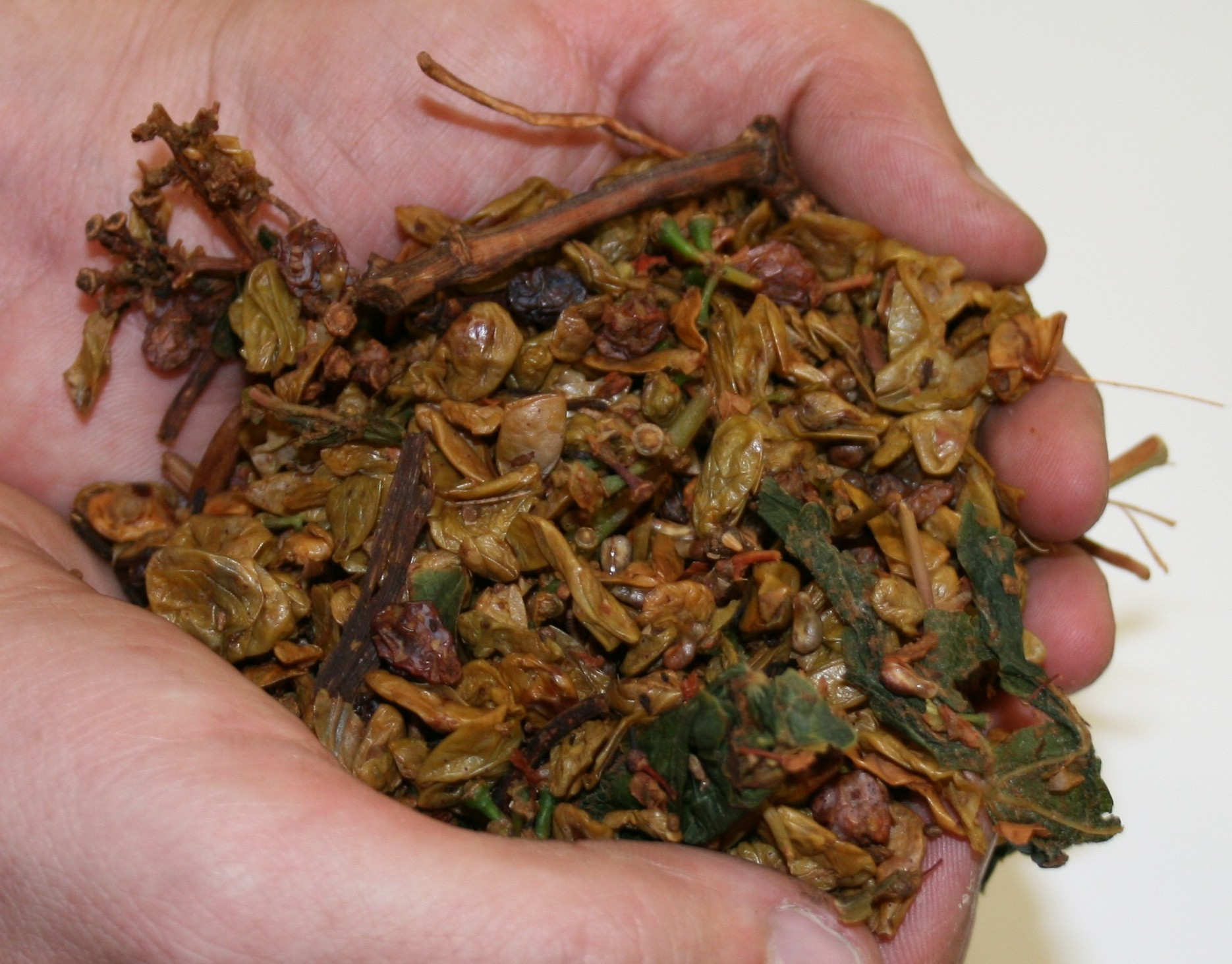 Fresh white grape marc from a winery in the Barossa Valley, South Australia, held in hands to show scale.